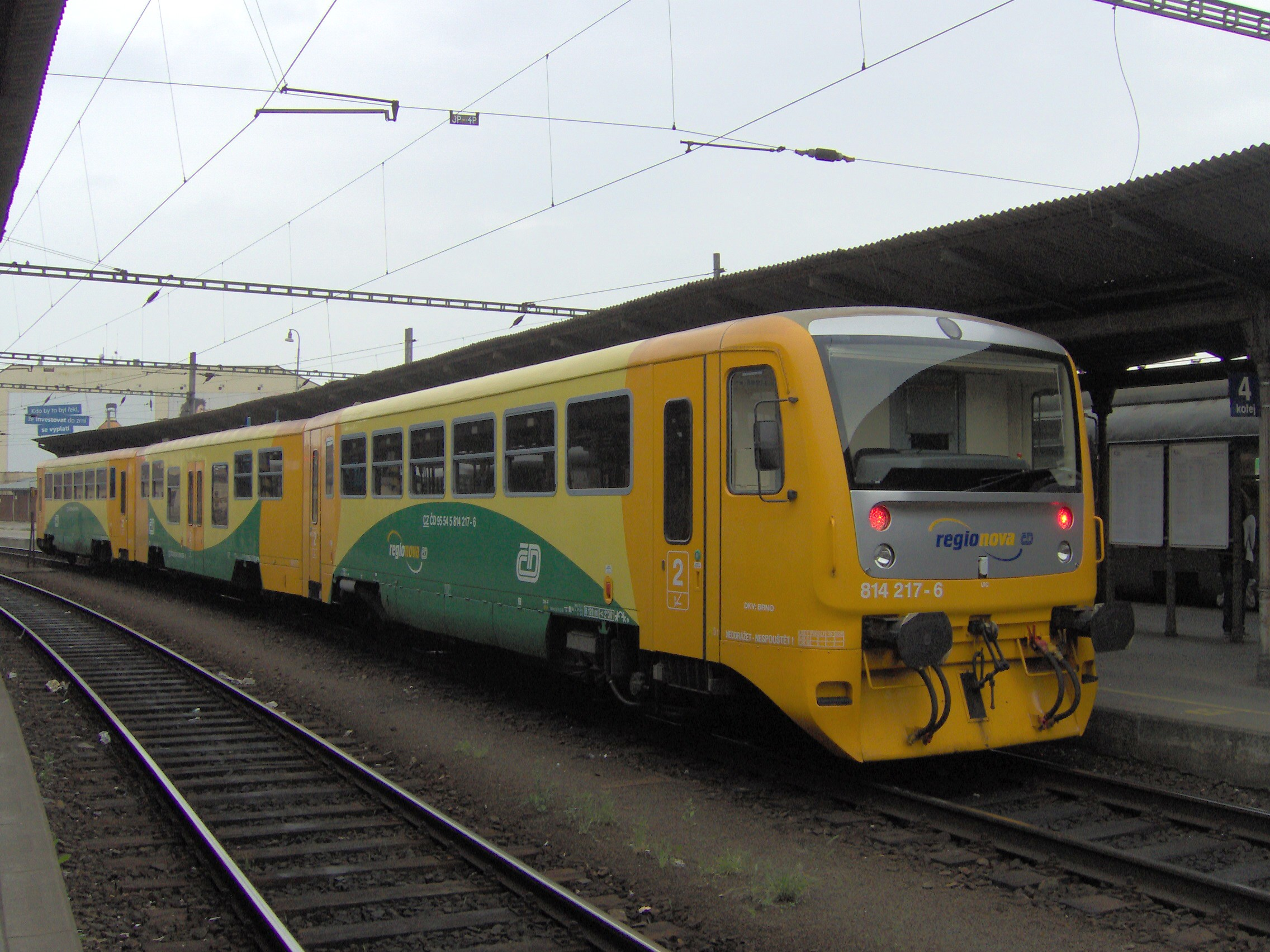 Diesel multiple unit 814.217/814.218, Brno main station, Czech Republic